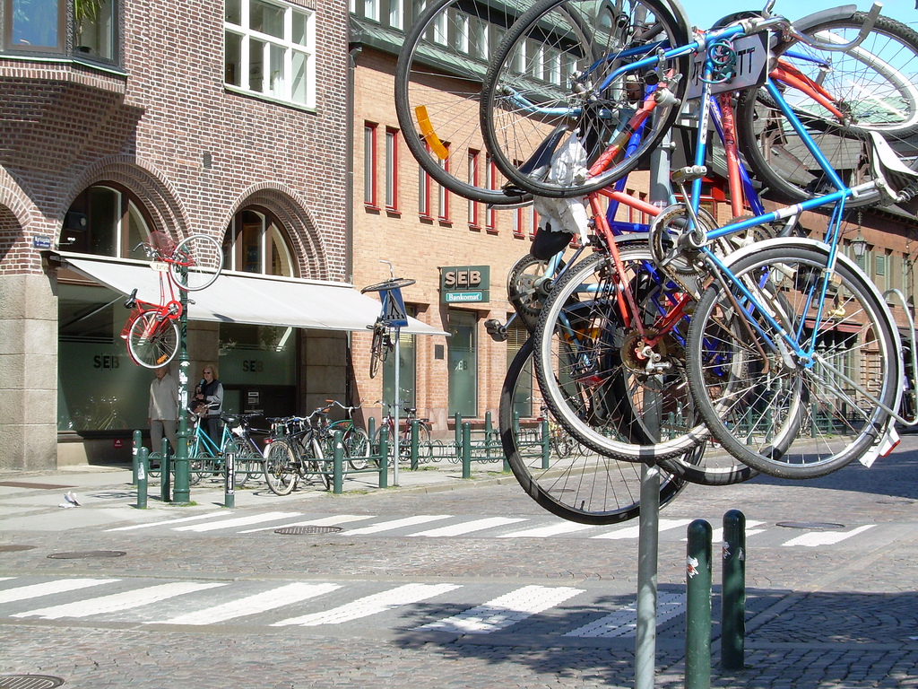 Bicycles hanging high after a practical joke done by student in Lund, Sweden.